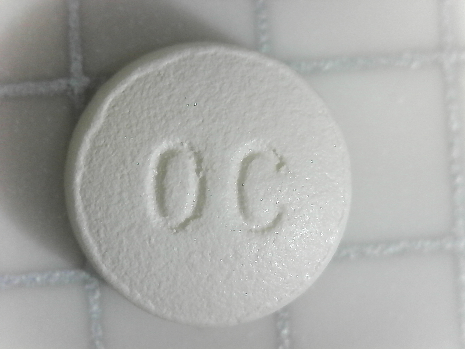 Oxycodone 10mg, "OC" facing up; the squares in the image represent one half centimeter, so the pill is around 0.75cm. This pill was taken out of a blister pack that was purchased legally, there is next to no chance that it is a counterfeit.